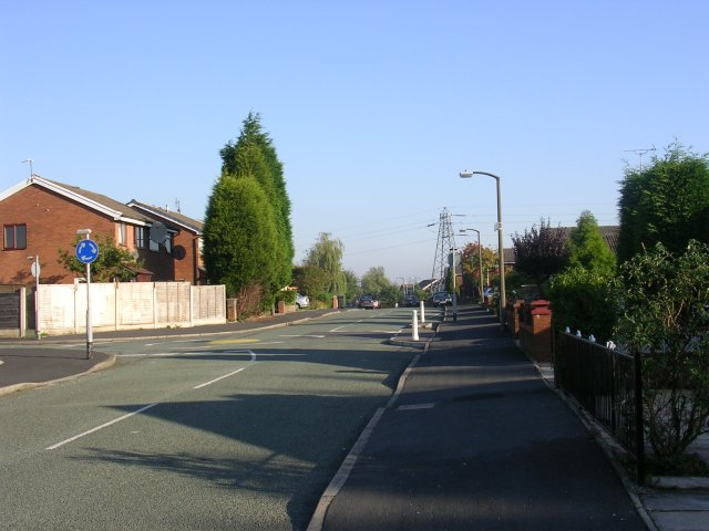 The Fairway. Looking north along The Fairway, New Moston. SD88420141.